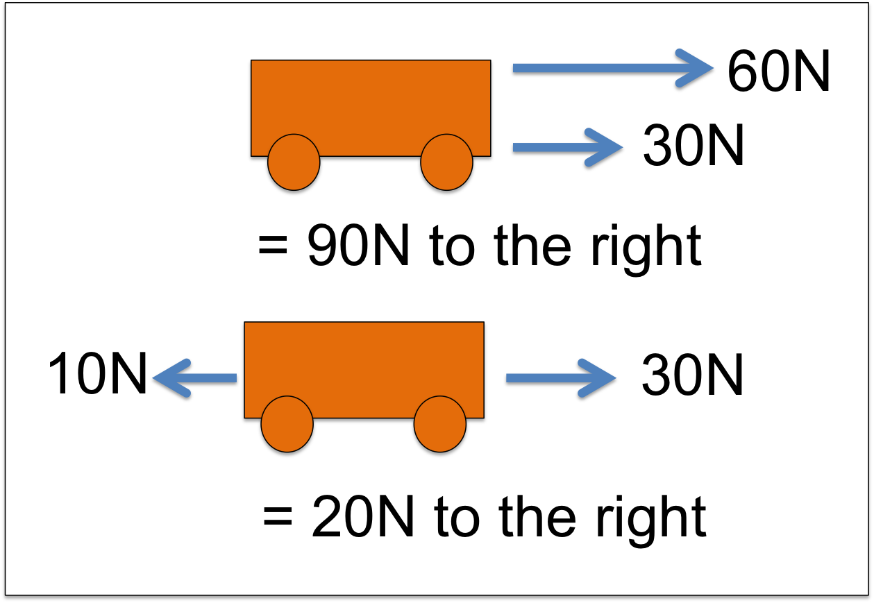 Helps show what resultant forces mean